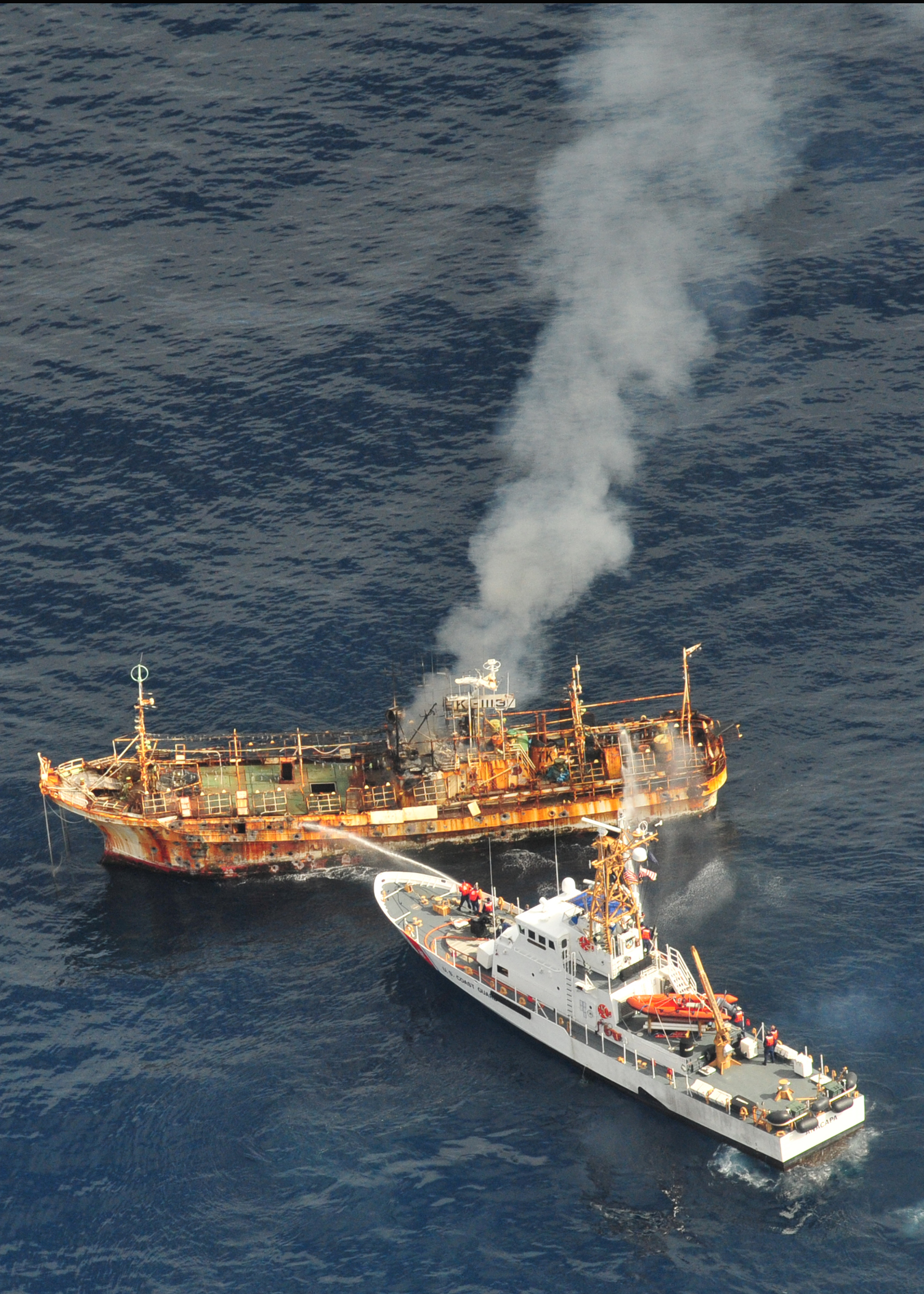 GULF OF ALASKA – The Coast Guard Cutter Anacapa crew douses the adrift Japanese vessel Ryou-Un_Maru with water after a gunnery exercise 180 miles west of the Southeast Alaskan coast April 5, 2012. The crew was successful and sank the vessel at 6:15 p.m. in 6,000 feet of water by using explosive ammunition and filling it with water. U.S. Coast Guard photo by Petty Officer 2nd Class Charly Hengen.